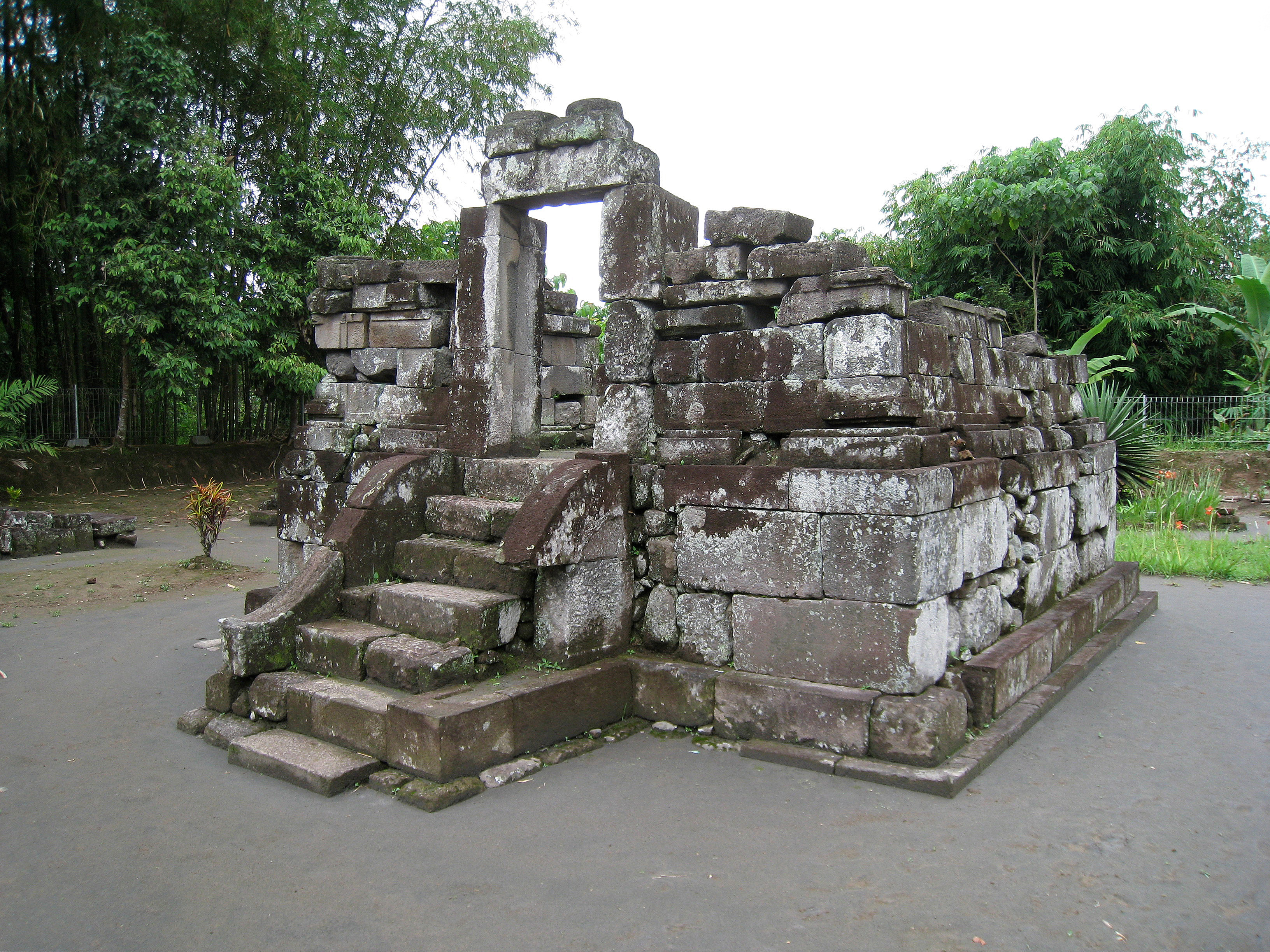 One of Perwara or smaller complementary temple. There are three perwara temples in front of Gunung Wukir (Canggal) main temple. Canggal hamlet, Kadiluwih village, Salam, Magelang Regency, Central Java, Indonesia.